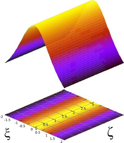 this is a small lower quality PNG version of Image:Soliton_1st_order.svg, I uploaded it because wikimedia could not render the SVG version because it's too big (about 2 Mbyte). For info about how to create it, see the page of the SVG version